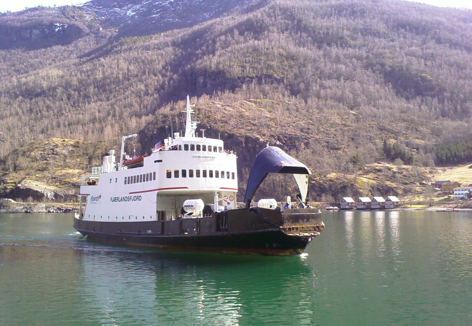 The Ferry "Fjærlandsfjord" in Flåm, Norway.